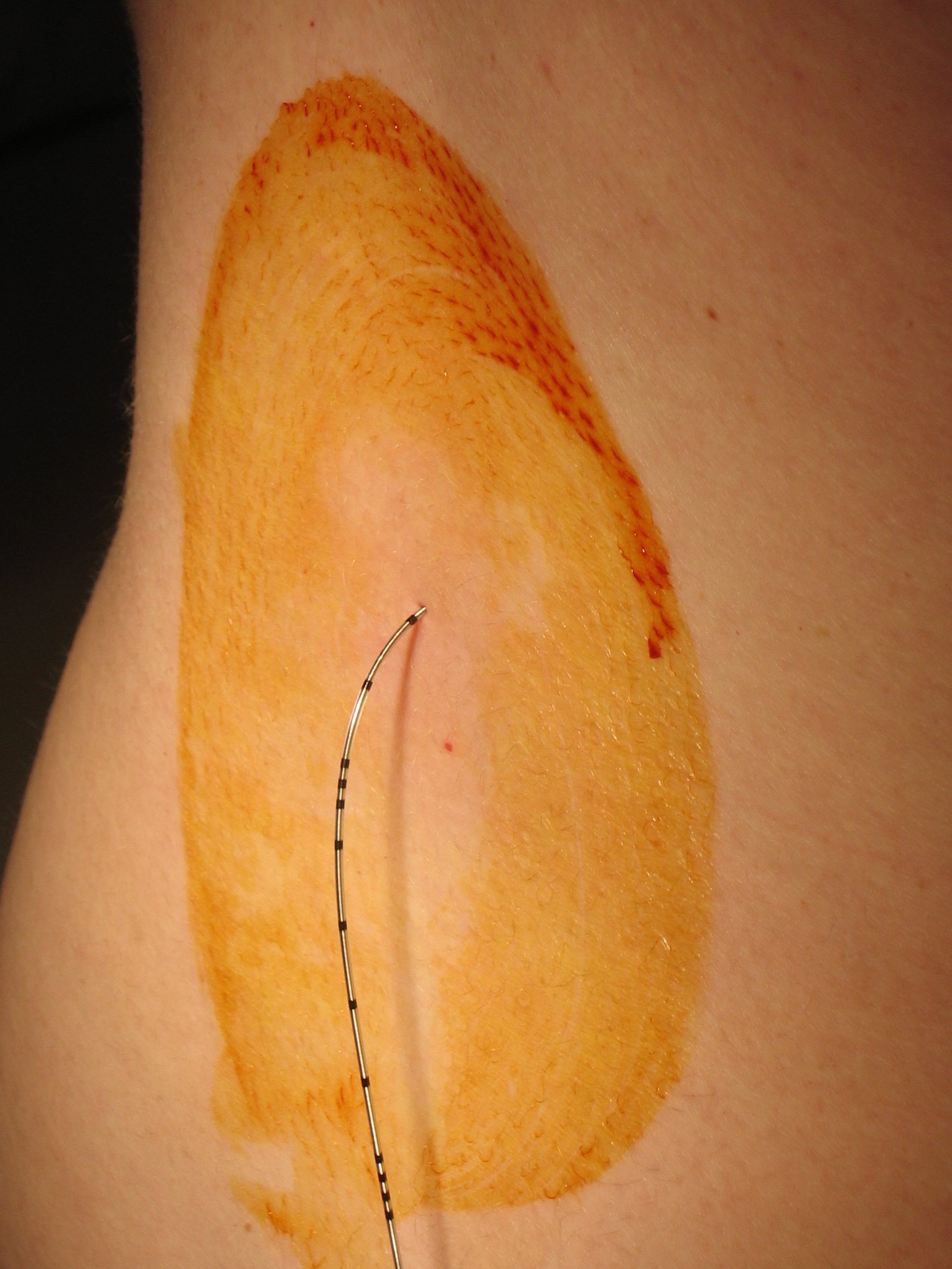 An Epidural performed for childbirth.